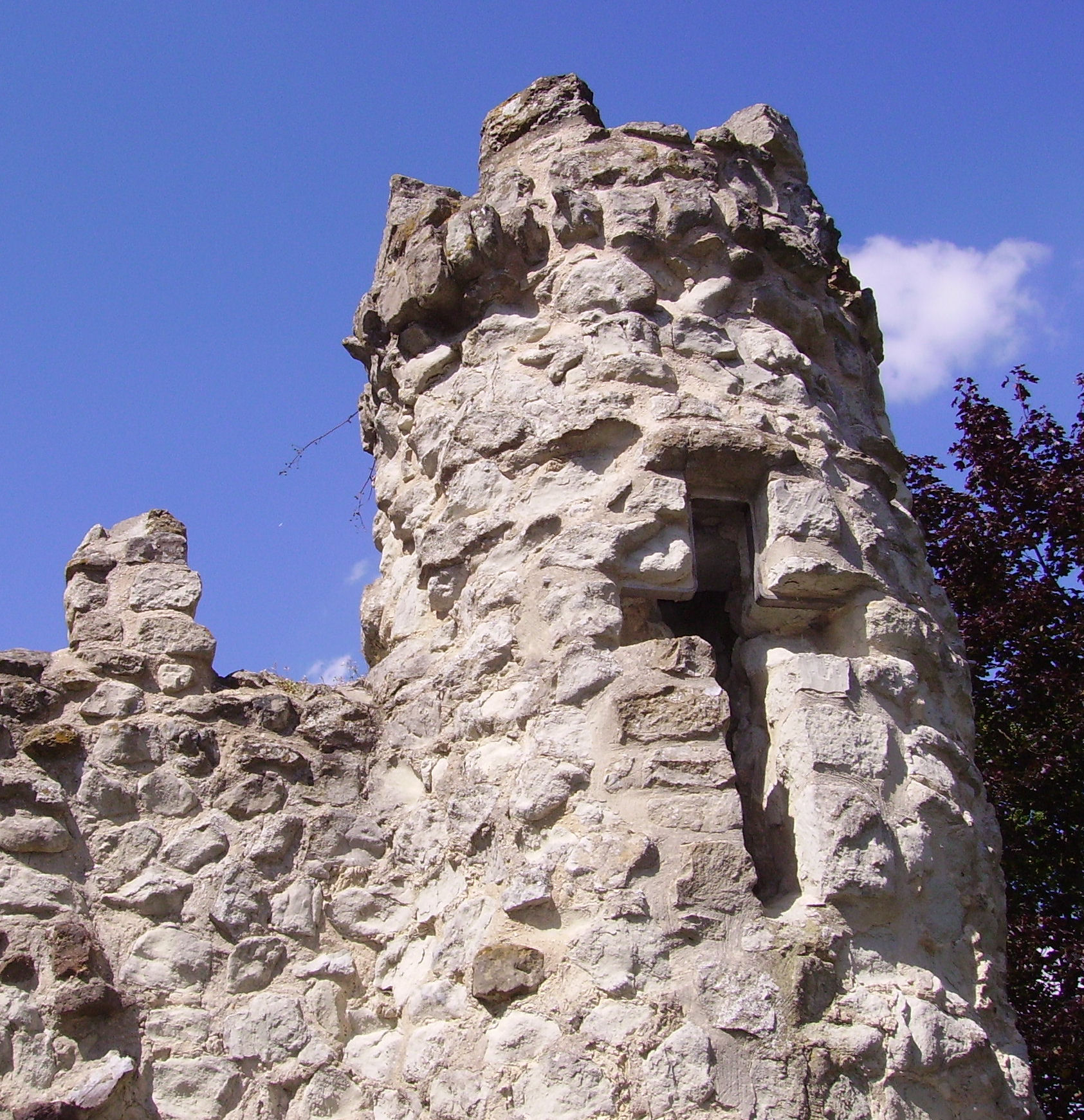 view of Reigate, United Kingdom